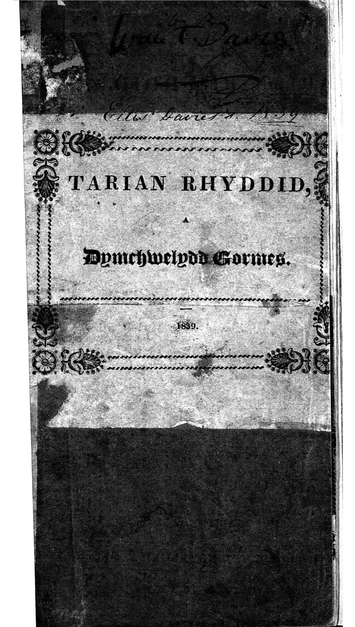 A monthly Welsh language radical anti-Church religious periodical that circulated amongst the Congregationalists. The periodical's main contents were articles attacking the Established Church, especially against the payment of tithes to the church. The periodical was edited by the minister, writer and political leader, William Rees (Gwilym Hiraethog, 1802-1883) and the minister and schoolmaster, Hugh Pugh (1803-1868).